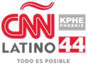 KPHE-LD's secondary logo used during CNN Latino programming